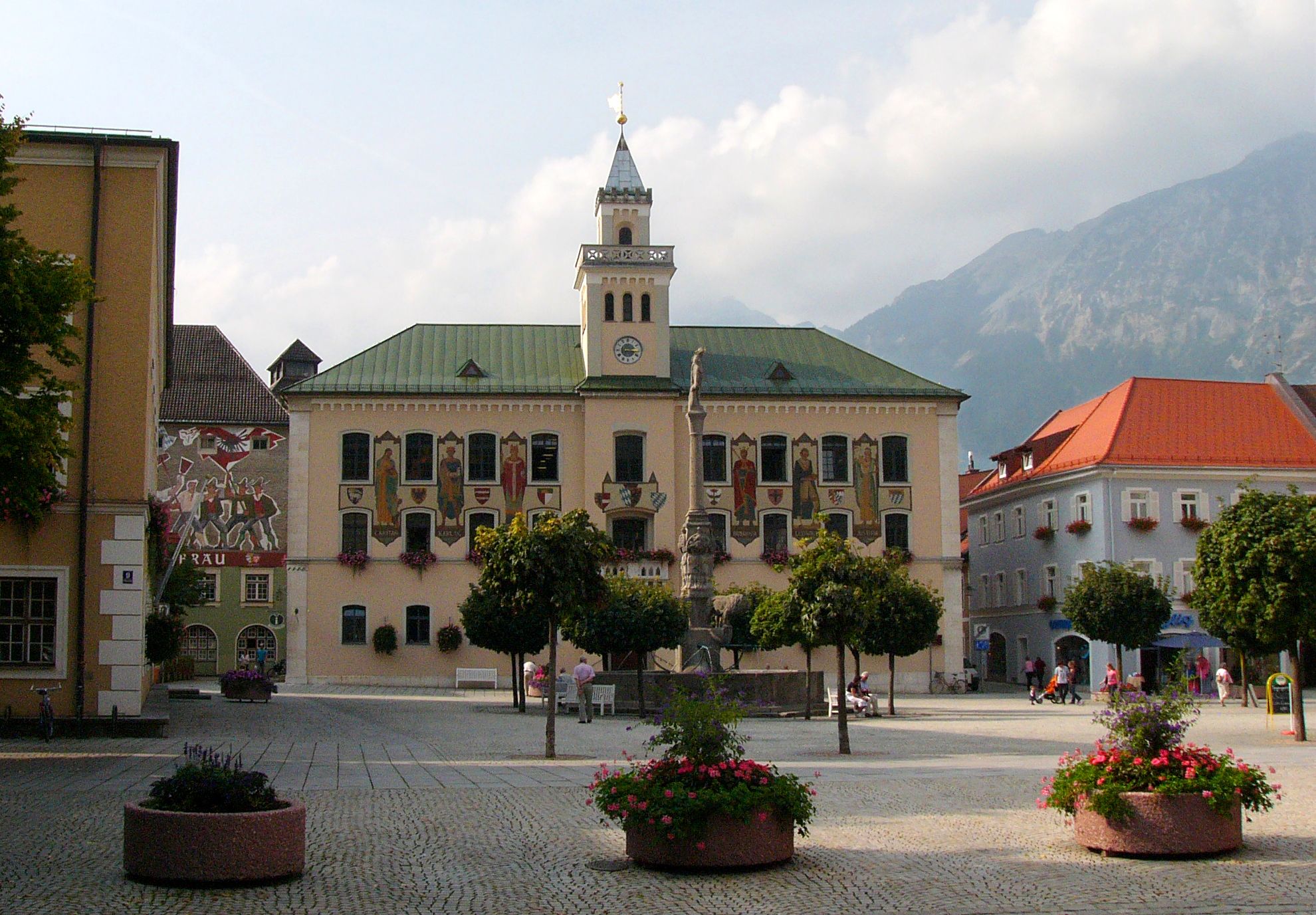 City hall of Bad Reichenhall, Germany